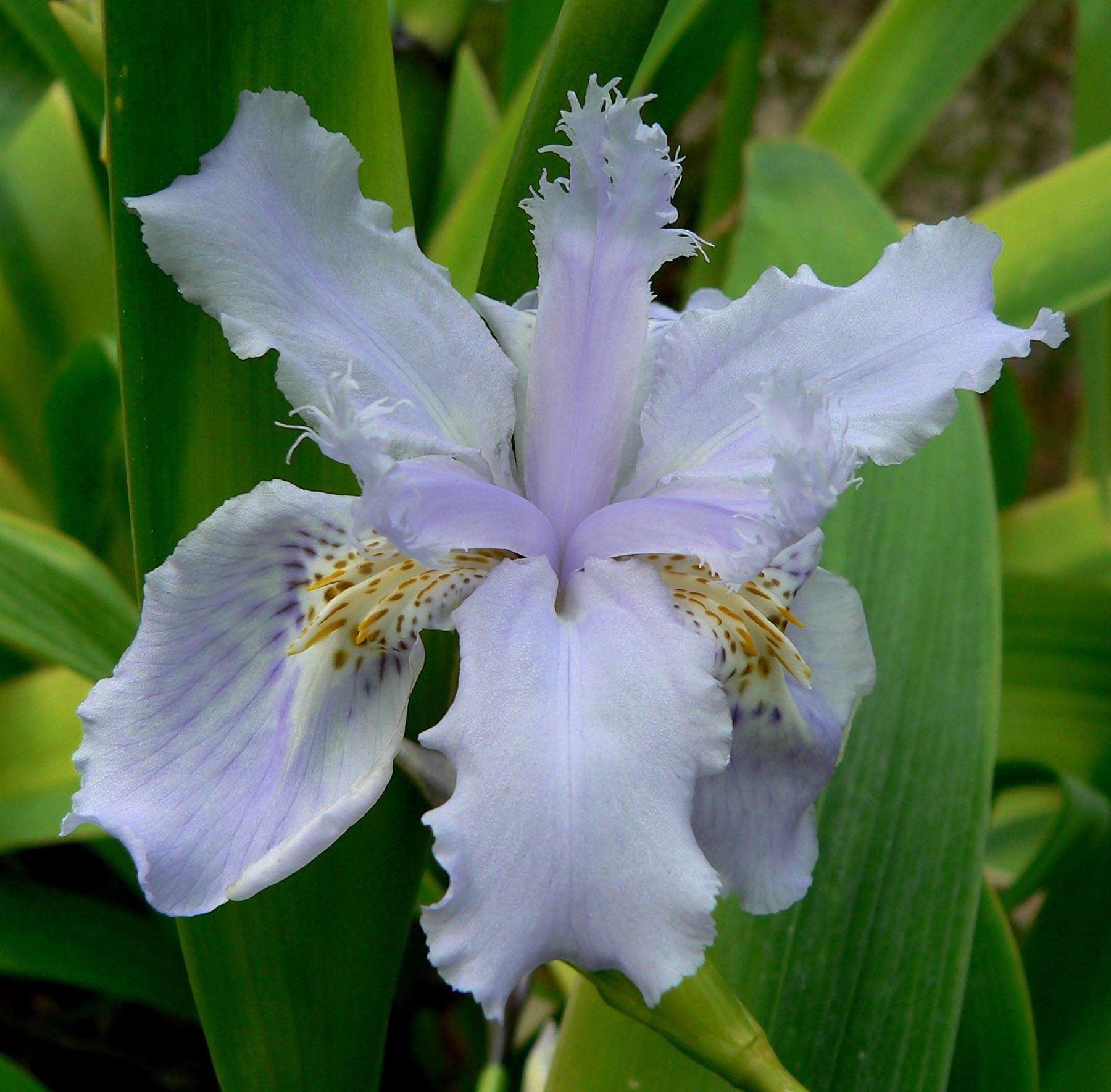 Photo of Iris wattii at the University of California Botanical Garden